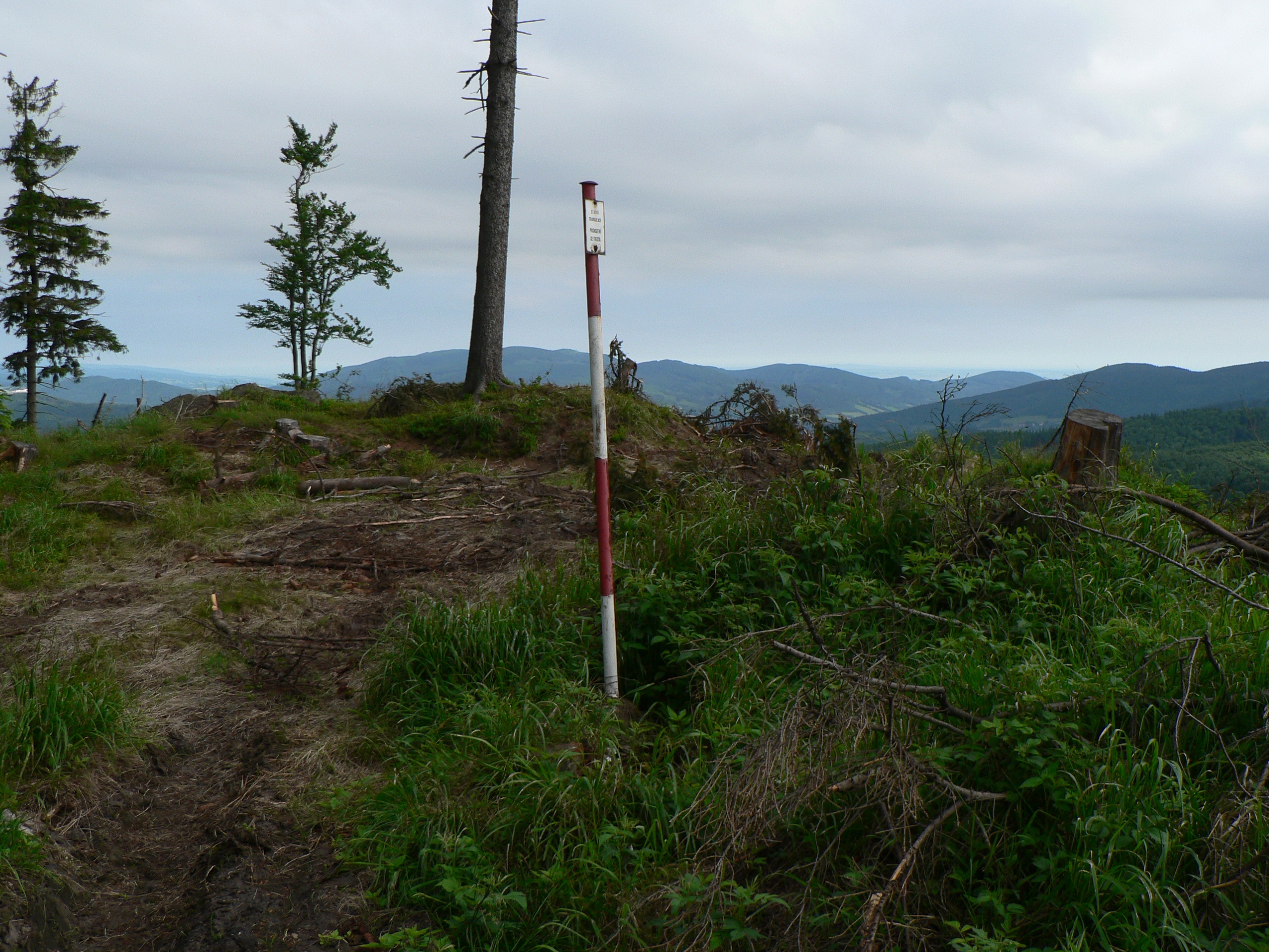 Top of Zajeci hora mountain, Hruby Jesenik Mts., Czech republic.